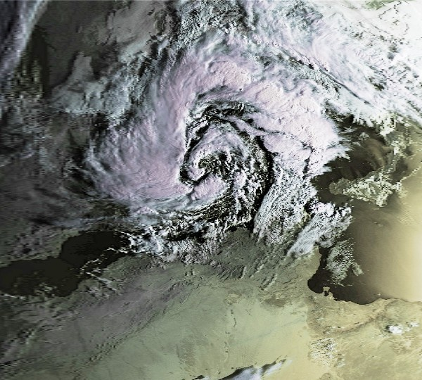 This image shows a cyclone in the Mediterranean Sea on October 7, 1996 at 0603 UTC. This image was produced from data from NOAA-12, provided by NOAA.